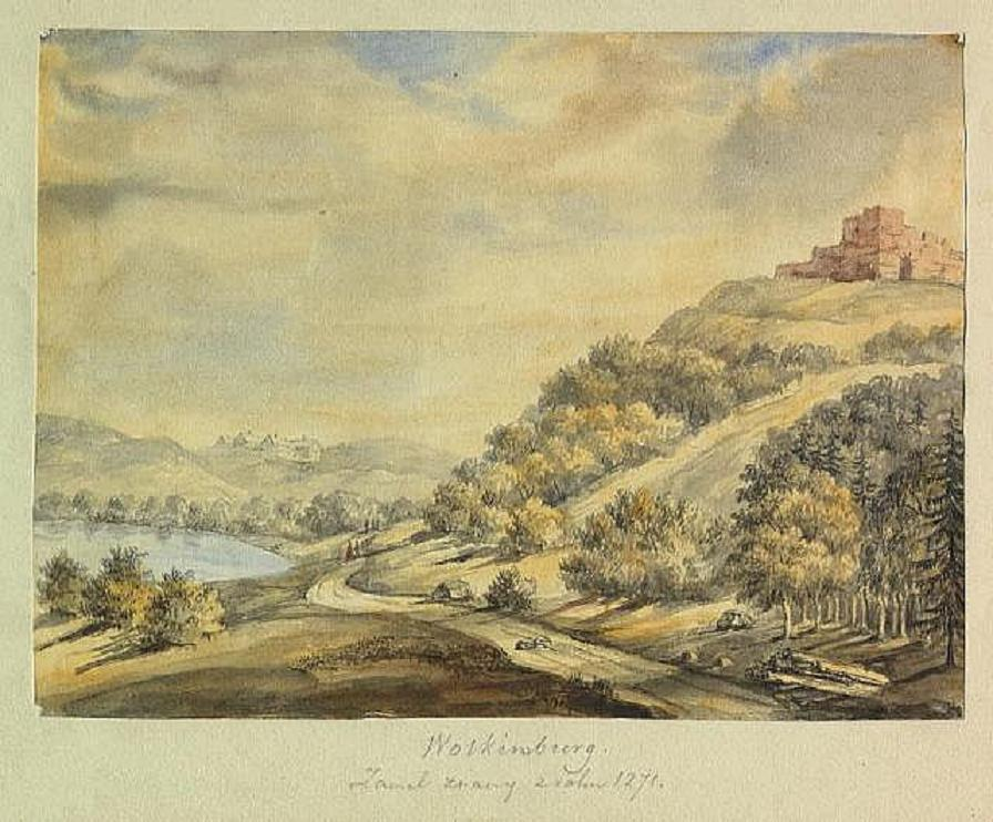 Baltic Germans. Ethnography. Johann Christoph Brotze.